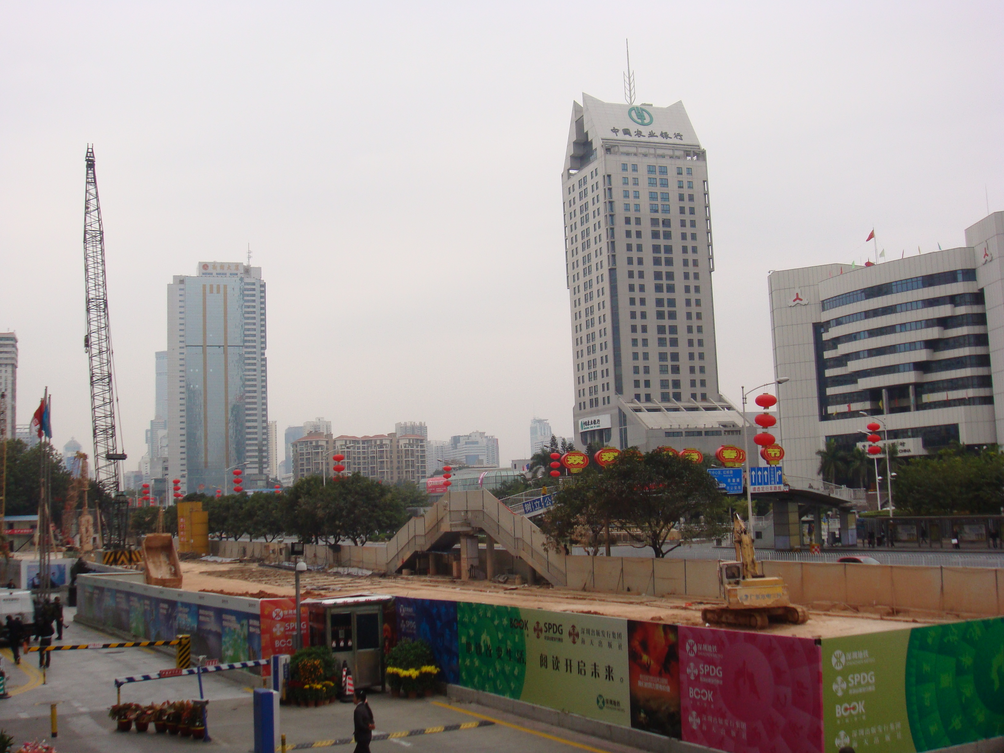 She Kou Line Construction of Da Ju Yuan Station of SZMRO